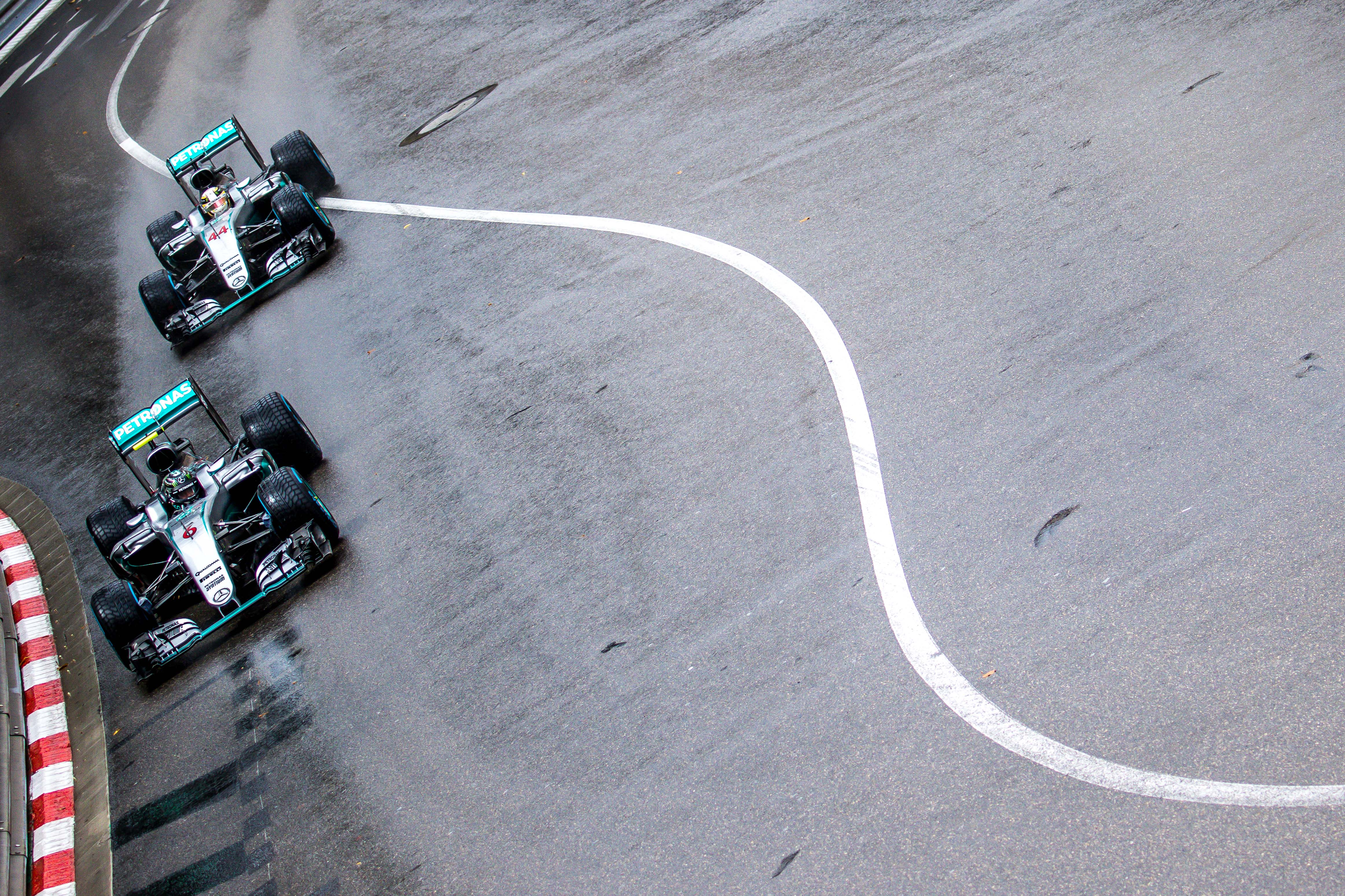 Lewis Hamilton and Nico Rosberg at the 2016 Monaco Grand Prix